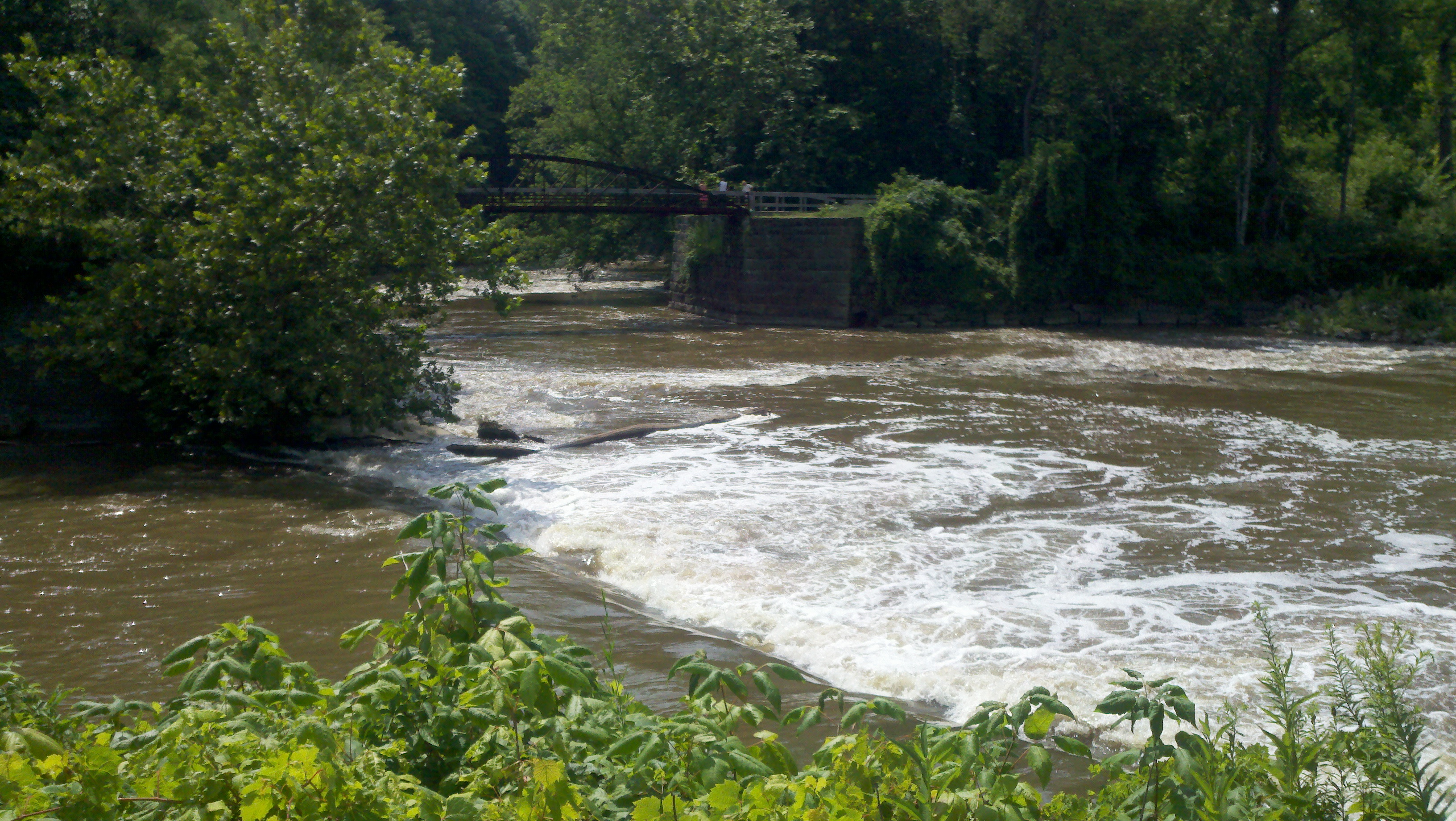 A view of the Erie Canal Towpath Bridge from the east in Peninsula, OH.